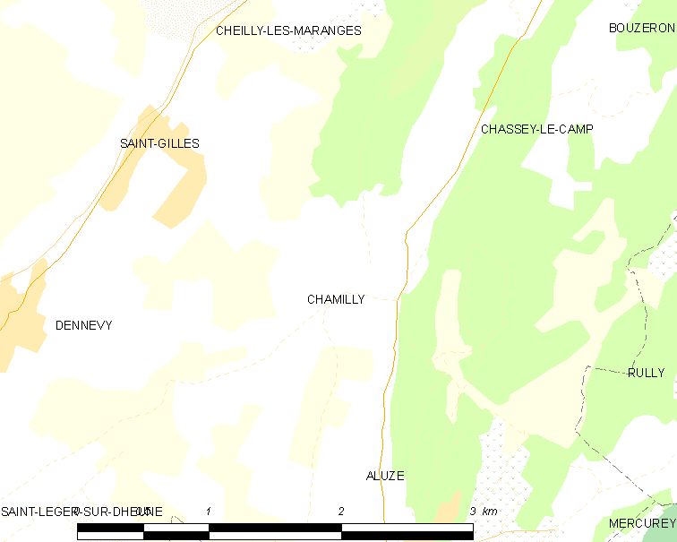 Map of French municipality